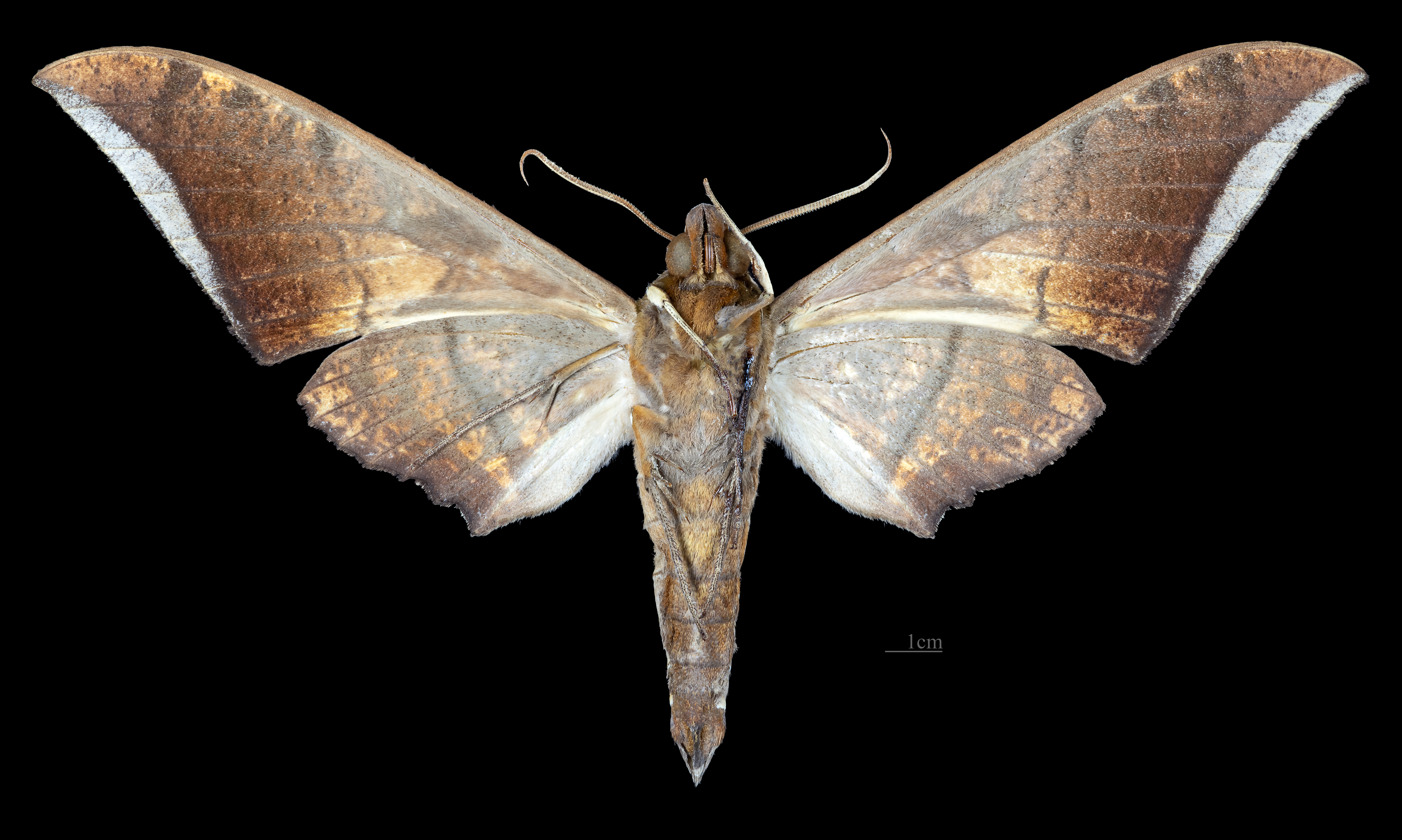 Ambulyx phalaris - △ Ventral side Collection of the Mathematician Laurent Schwartz